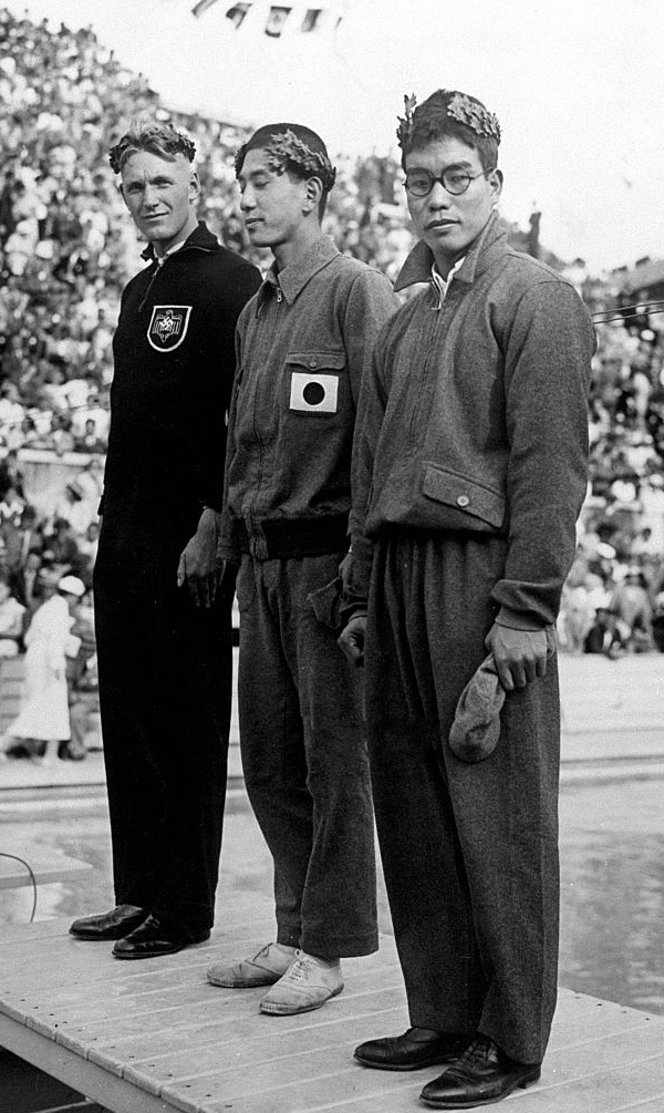 Silver medalist Erwin Sietas of Germany, gold medalist Tetsuo Hamuro of Japan and bronze medalist Reizo Koike of Japan pose on the podium during the medal ceremony for Swimming Men's 200m Breaststroke during the Berlin Olympic at Olympic Stadium on August 15, 1936 in Berlin, Germany